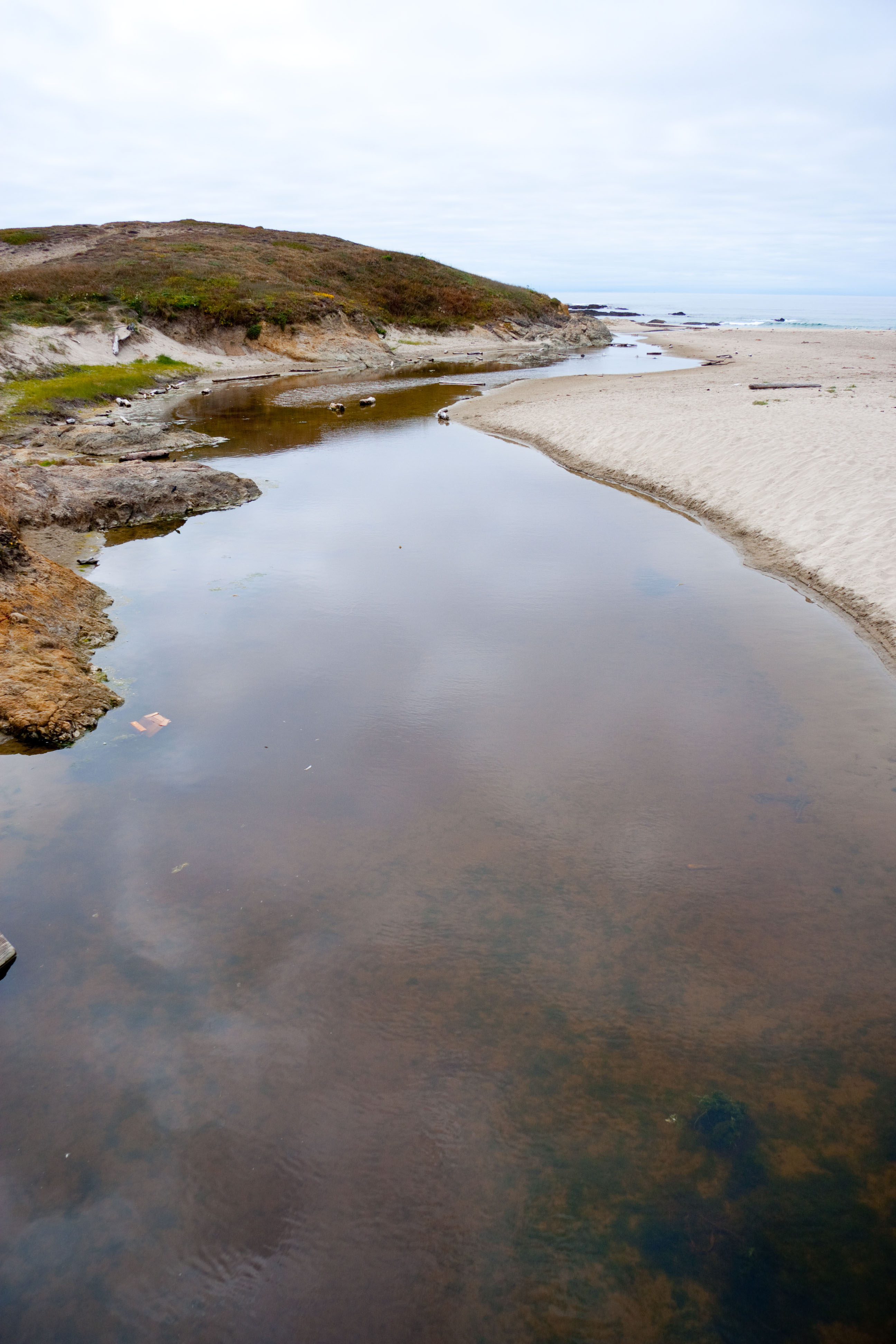 Virgin Creek, north of Fort Bragg, California, looking from the haul road towards the mouth of the creek